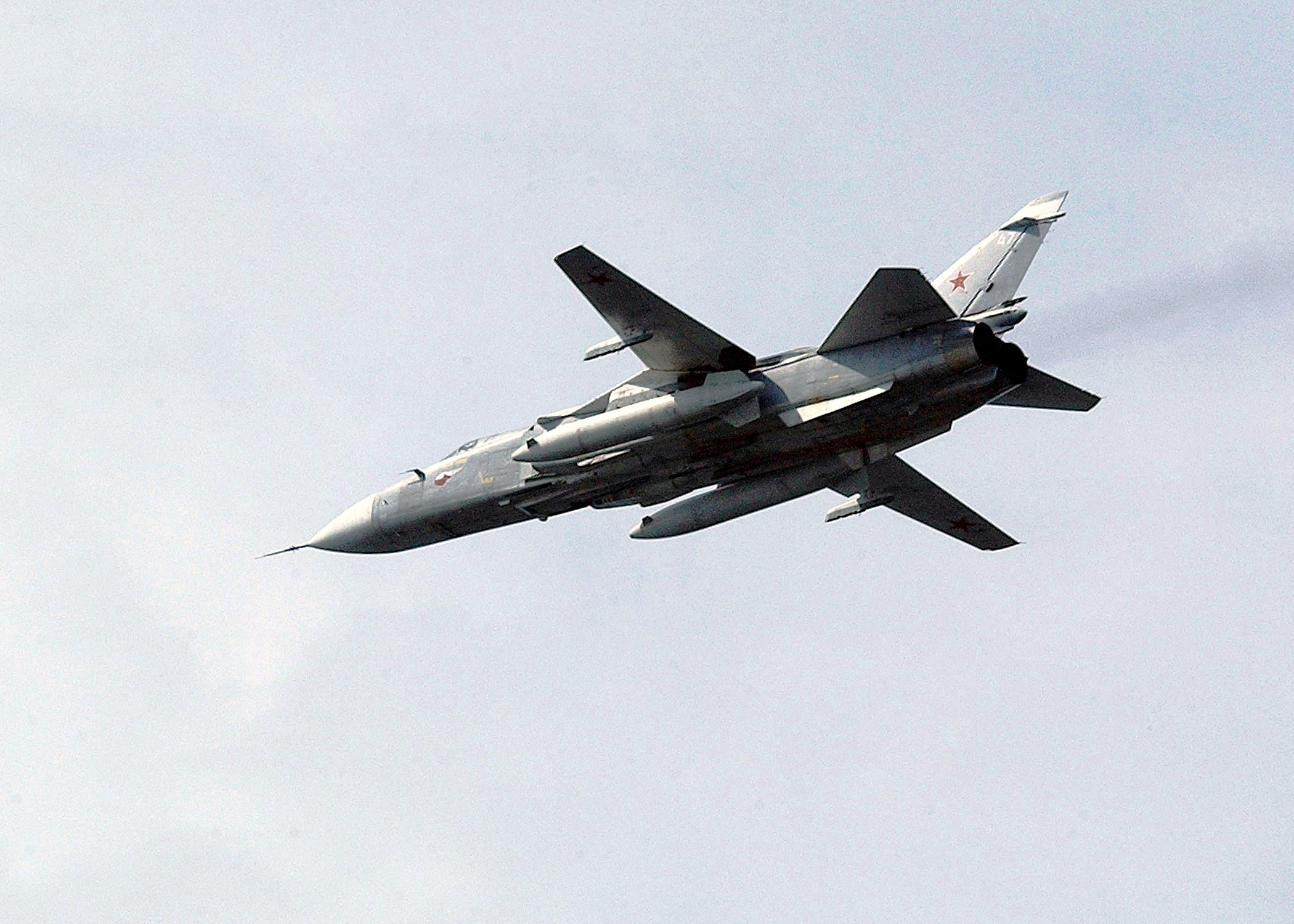 A Russian SU-24 Fencer fighter jet flies above the Aegis class, guided missile cruiser USS Vella Gulf (CG 72) during the maritime exercise Baltic Operations 2003 (BALTOPS).